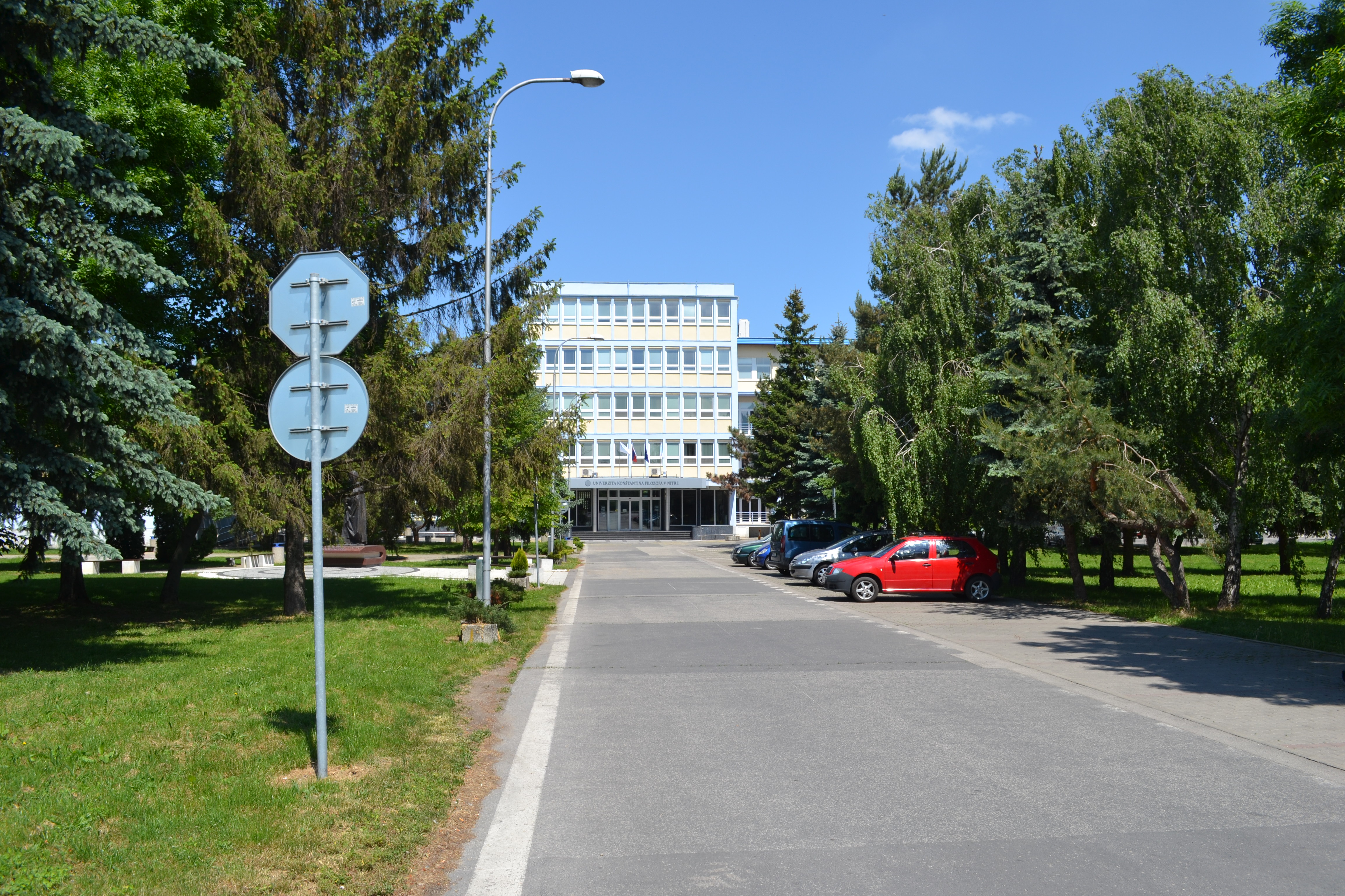 Constantine the Philosopher University in NitraSlovenčina: Univerzita Konštantína Filozofa v Nitre